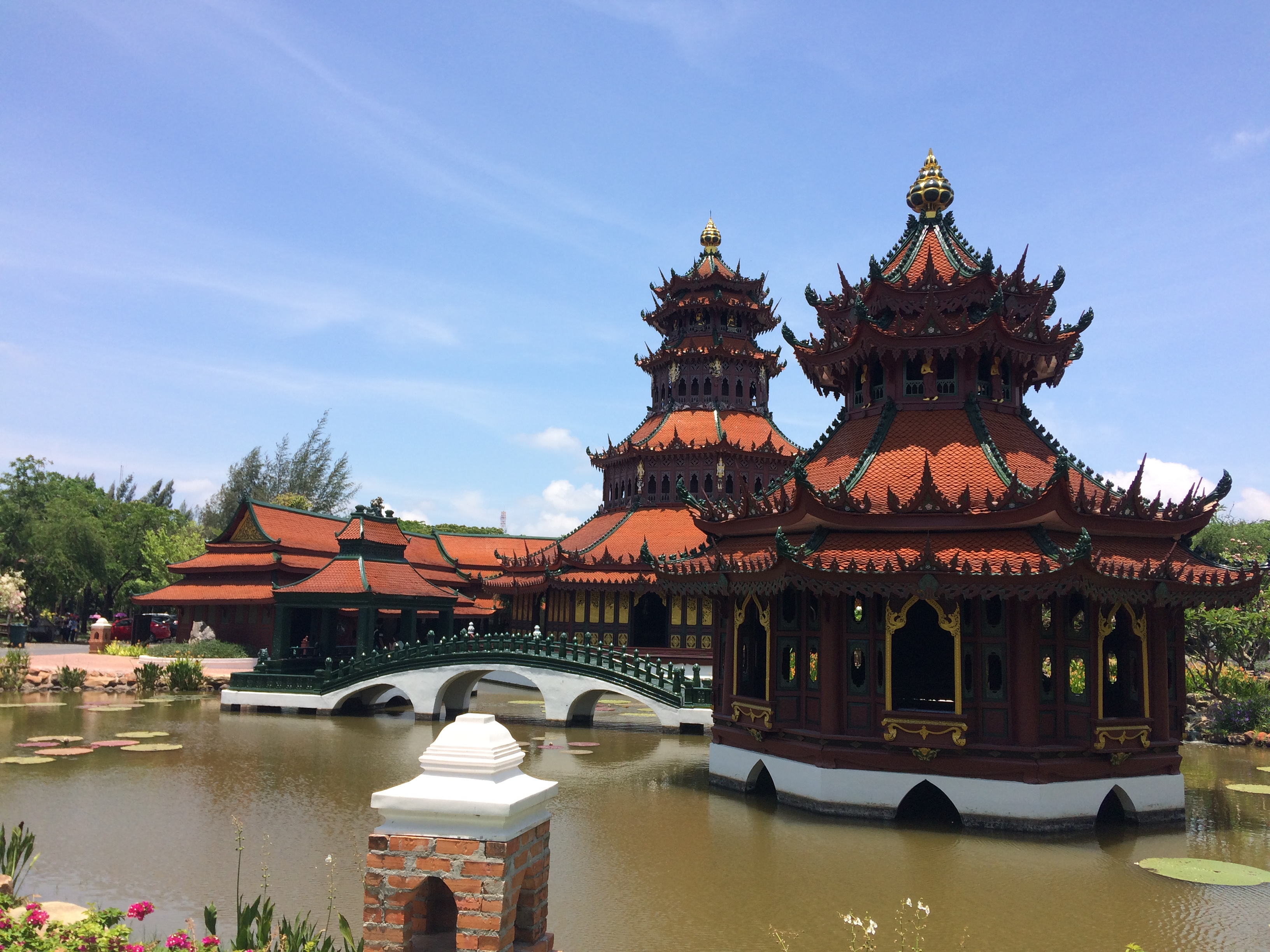 Ancient City_ Floating Market